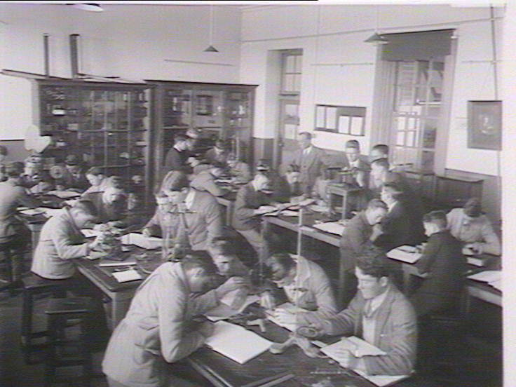 Science class at Fort Street High School in 1930.